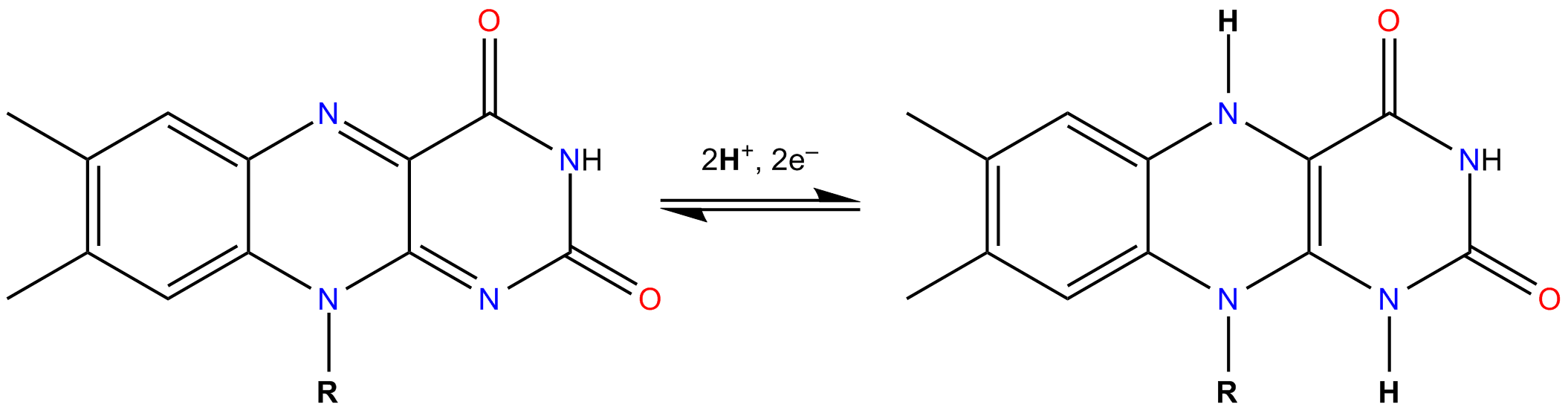 Redox equilibrium between FAD and FADH2